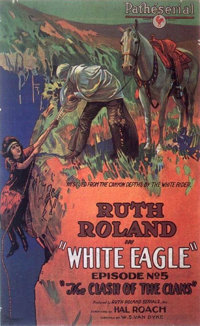 White Eagle is a 1922 Western film serial directed by Fred Jackman and W. S. Van Dyke. This is a poster for episode 5.